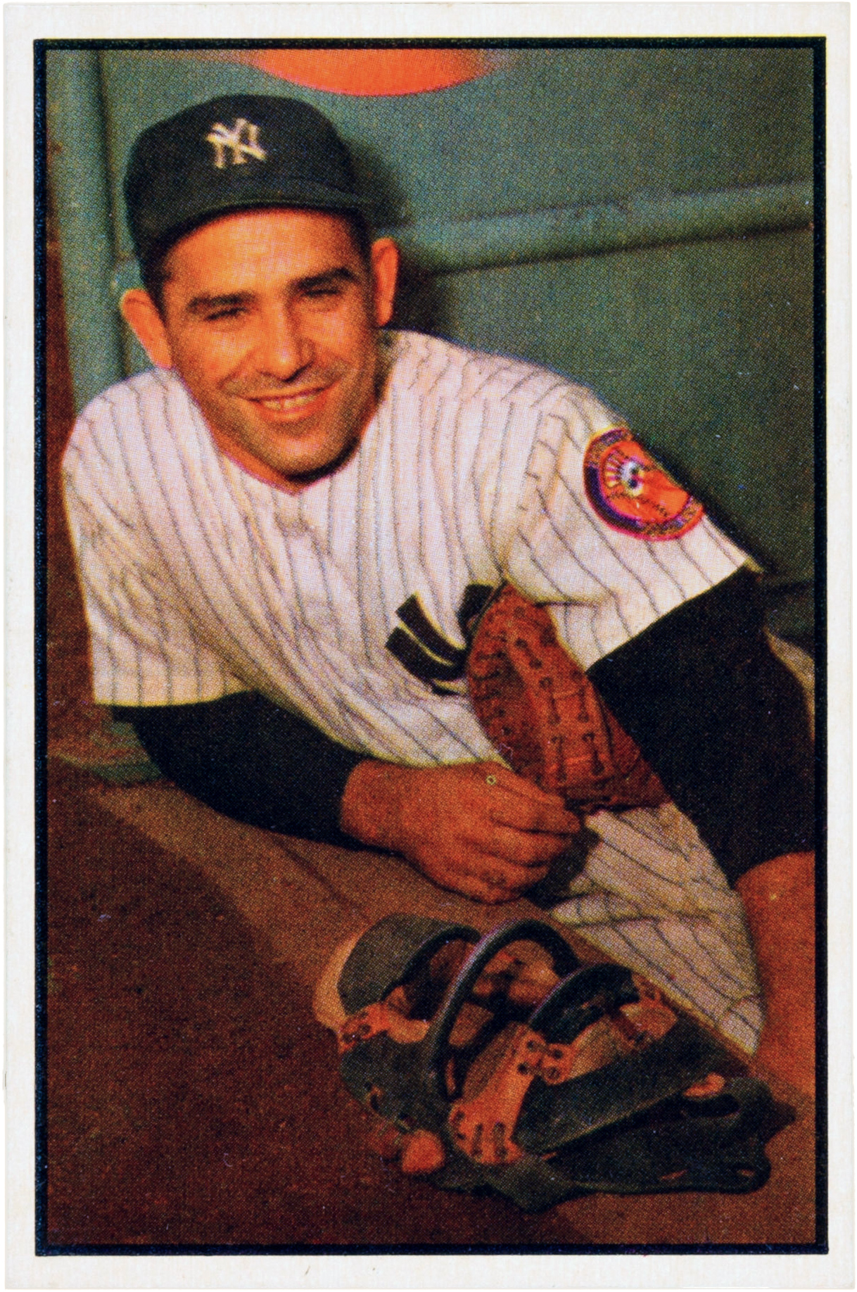 1953 Bowman Color Yogi Berra #121